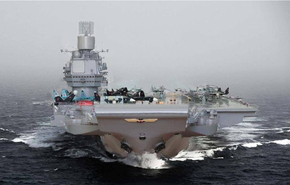 Коллаж, 2018